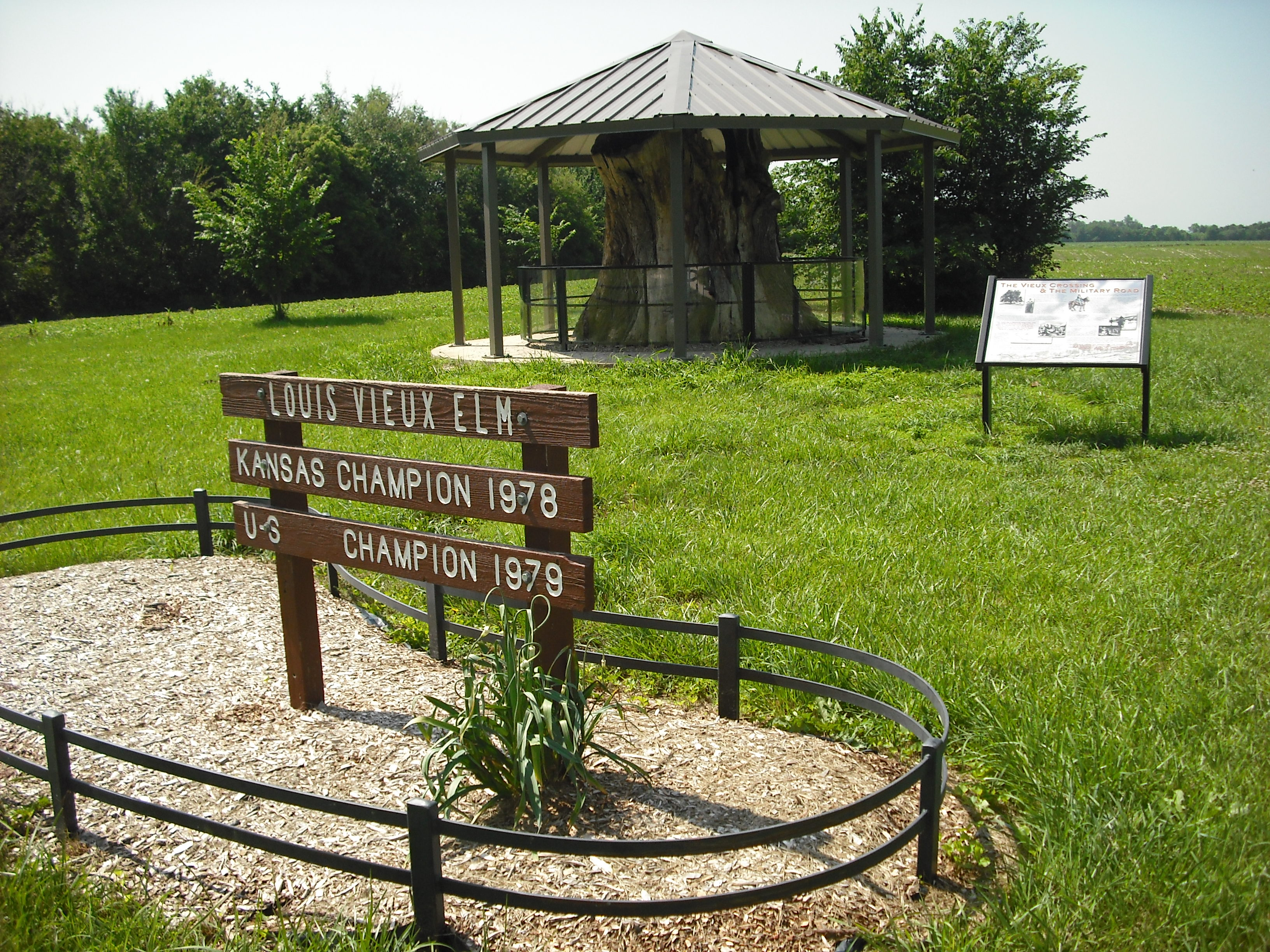 The Louis Vieux Elm Tree Park near the Vermillon Creek Crossing of the Oregon Trail. Nearby are soldier burials, the Louis Vieux Family Cemetery and Cholera Cemetery.